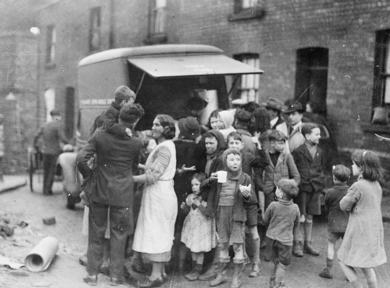 Britain's Home Front 1939 - 1945- Civil Defence Mothers and children in a working class area of Swansea have tea and sandwiches from a mobile canteen after a night's bombing.